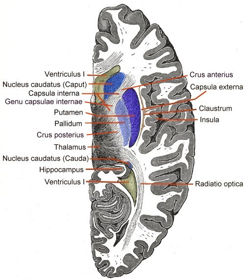 Horicontal section through Telencephalon. Basal ganglia blue.